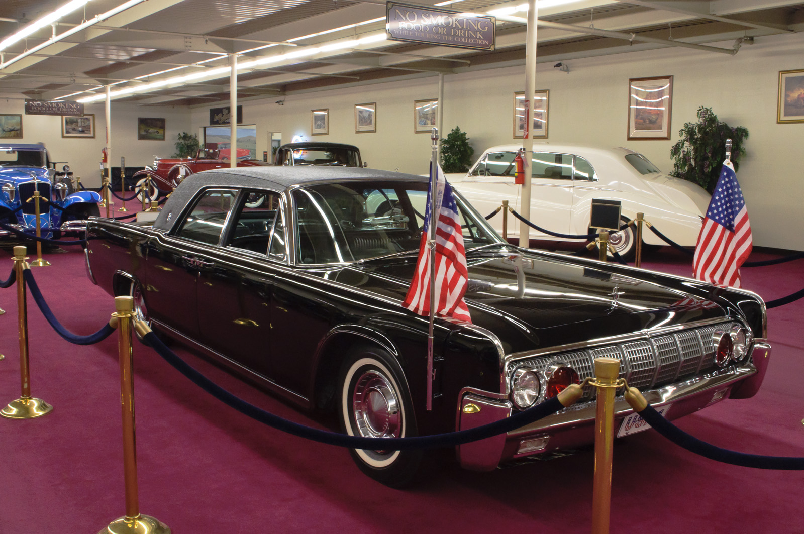 Seen at the famous Auto Collection at The Quad (formerly Imperial Palace), Las Vegas. Built in 1961 and based in New York City primarily for President Kennedy's use, this Lincoln also carried other dignitaries including Vice President Johnson, Princess Grace, and others. President Kennedy last used this car on 15 November 1963, while visiting New York City to speak to AFL-CIO and Catholic Youth League; he was assassinated in Dallas a week later.